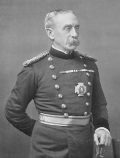 Portrait of General Sir George Benjamin Wolseley